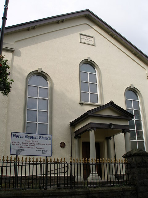 Horeb Baptist Church Opened in 1862 to replace an earlier Chapel. It is a typical example of Welsh valley chapel architecture.